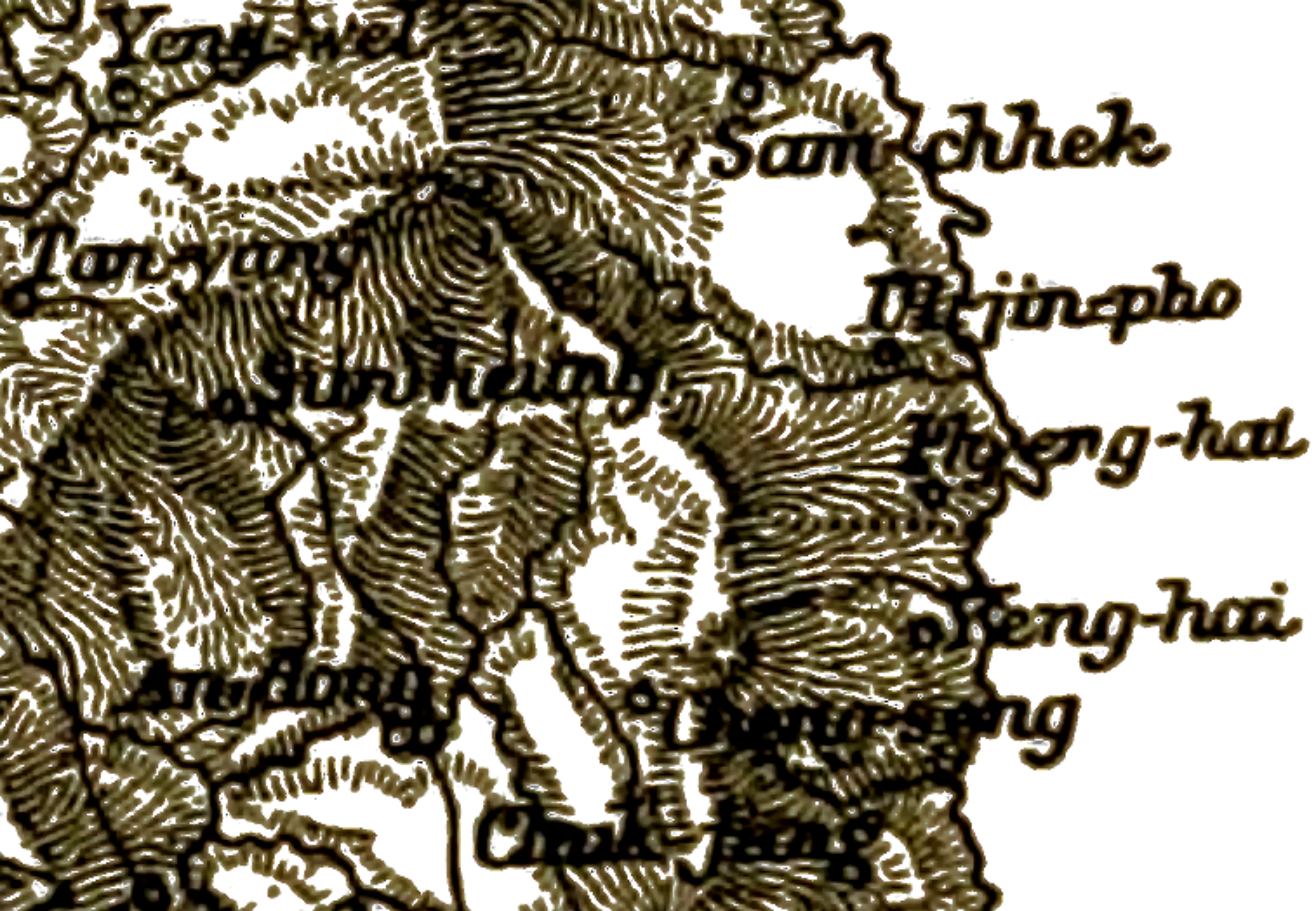 A retouched detail from this version of the map of Korea from Reports of the Missionary and Benevolent Boards and Committees to the General Assembly of the Presbyterian Church in the United States of America.